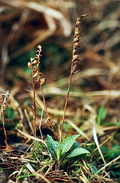 Goodyera repens, Rhön, Germany